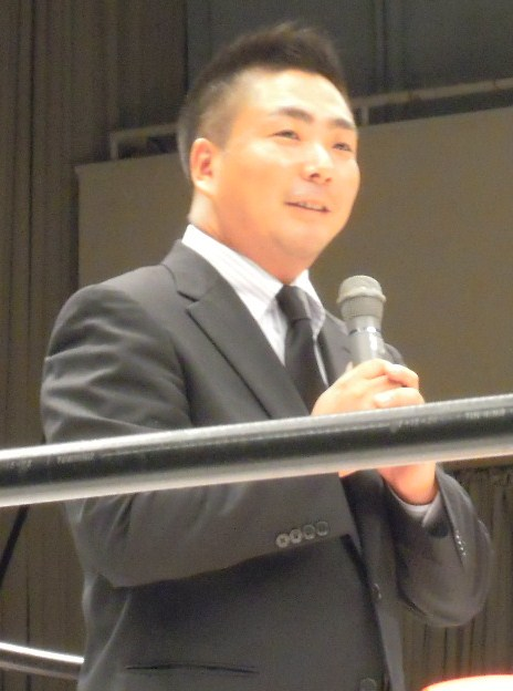 Big Japan Pro.Wrestling Owner,Eiji Tosaka. Aug 29 2010 BJW Korakuen Hall.